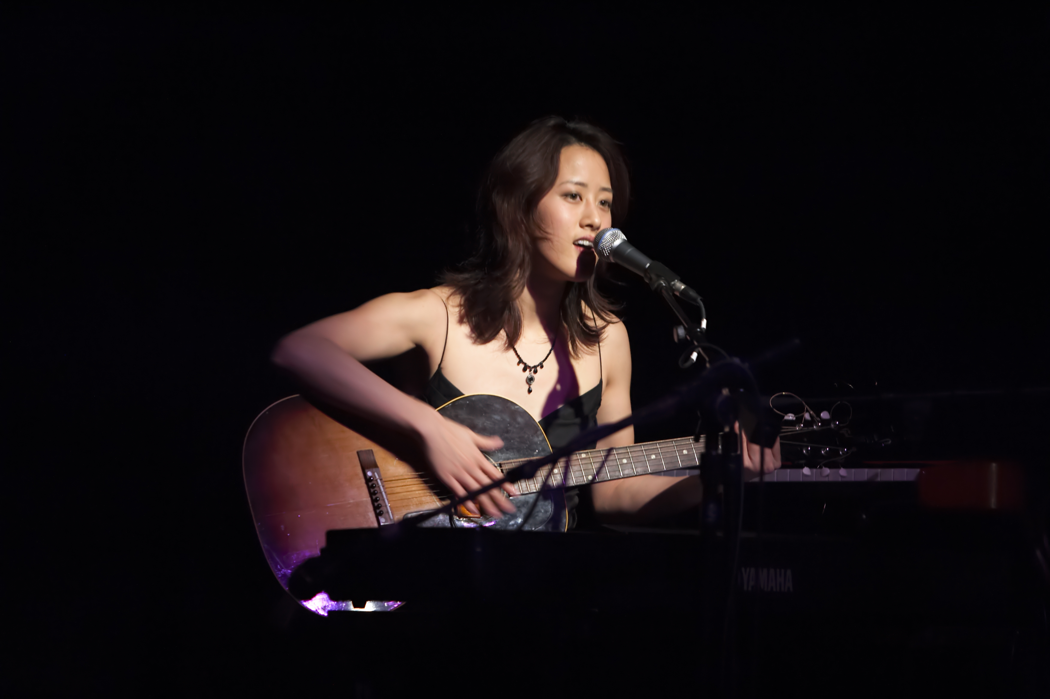 Vienna Teng performing at the Independent in San Francisco, California.